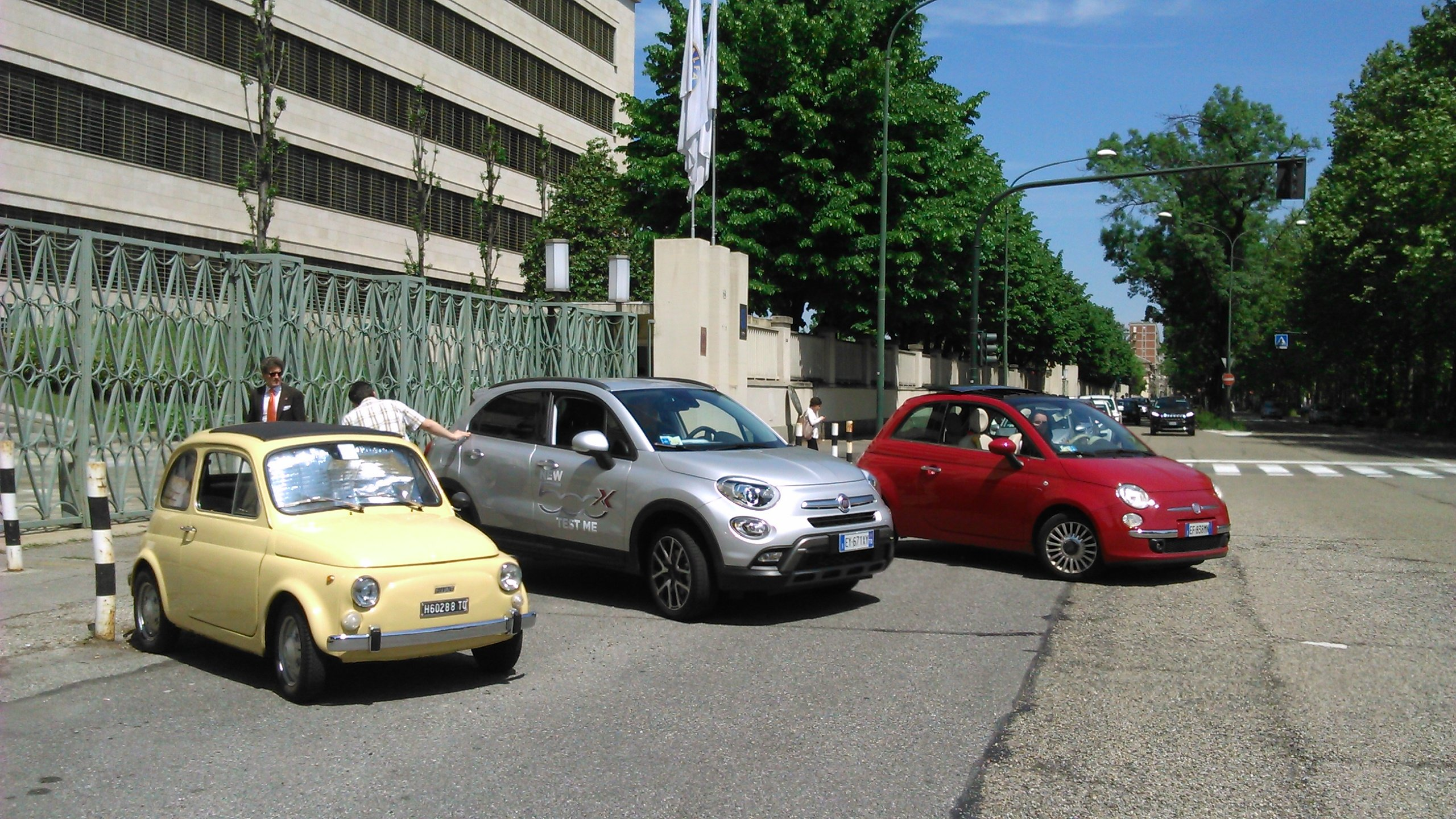 Fiat 500, original, new and X. Outside Corso Giovanni Agnelli main entrance